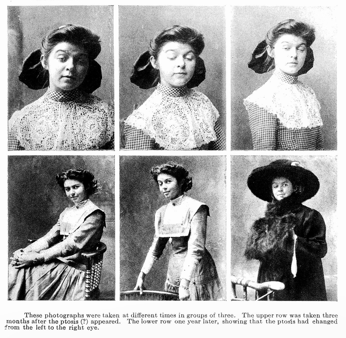 Six photographs General Collections Keywords: Psychiatry